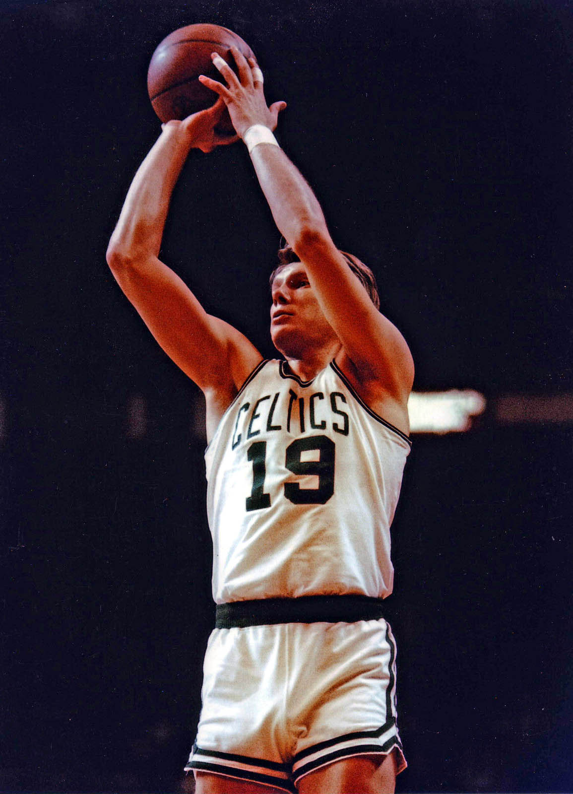 American basketball player Don Nelson during his tenure on the Boston Celtics